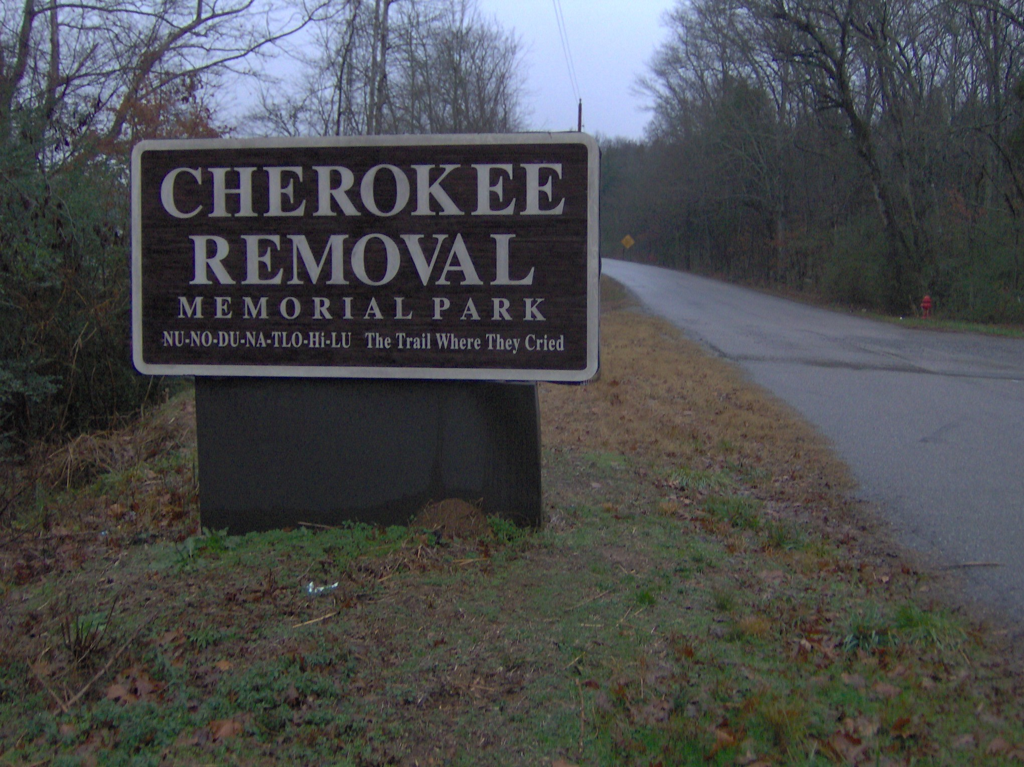 The entrance to the Cherokee Removal Memorial Park — at the Hiwassee Wildlife Refuge in Meigs County, Tennessee. The park overlooks the Blythe Ferry site, where over 9000 Cherokee were ferried across the Tennessee River to begin the Trail of Tears in 1838 — a forced ethnic removal march from their homelands to Oklahoma.